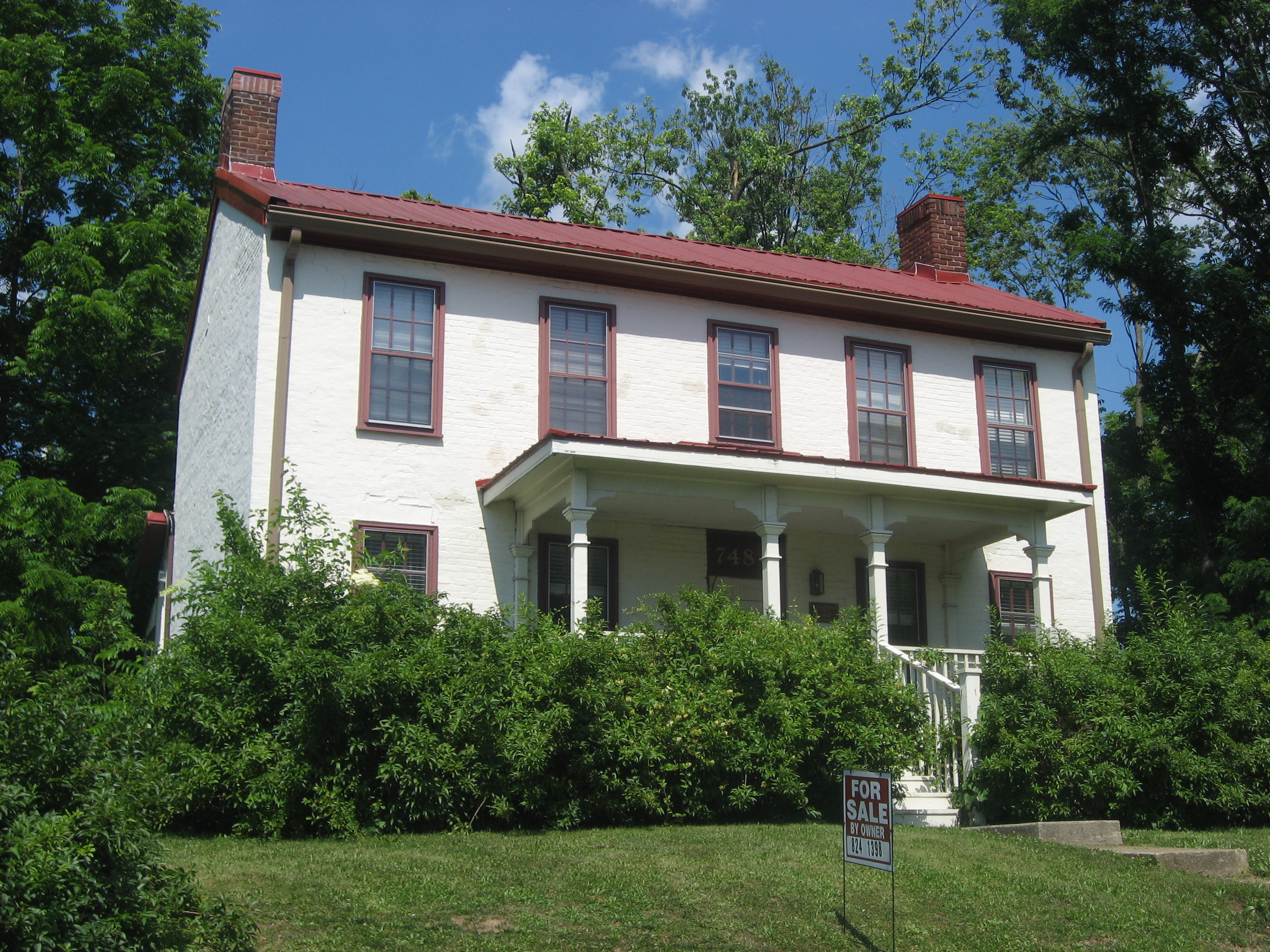 Front and southern side of the Henderson House, located at 748 S. Morton Street in Bloomington, Indiana, United States. Built in 1835, it is part of the locally-designated McDoel Study Area. It was the home of Bayard Rush Hall, one of Indiana University's first faculty members, and is one of the oldest houses in the city.